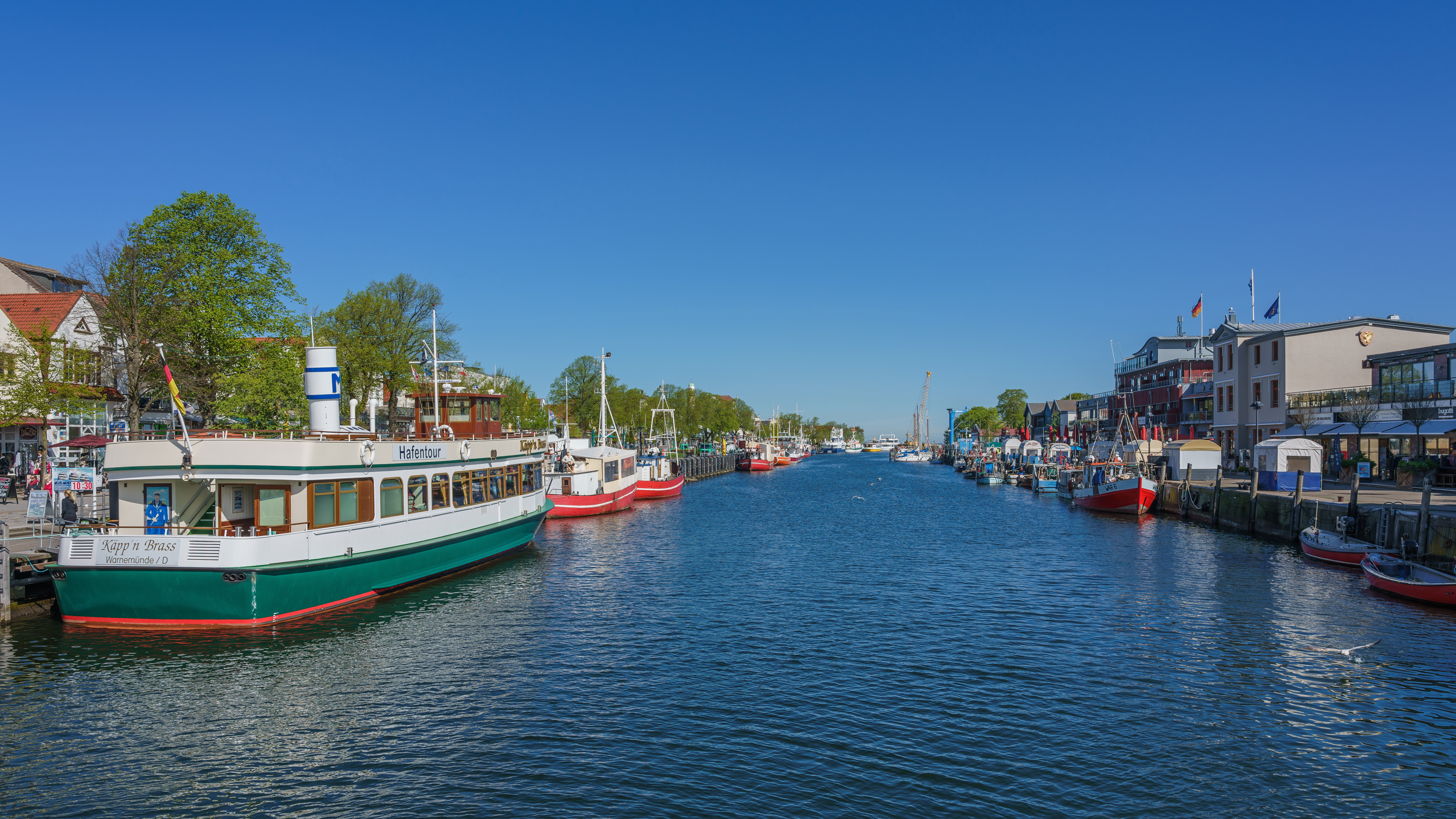 Surroundings of the port of Warnemünde, Rostock, Germany